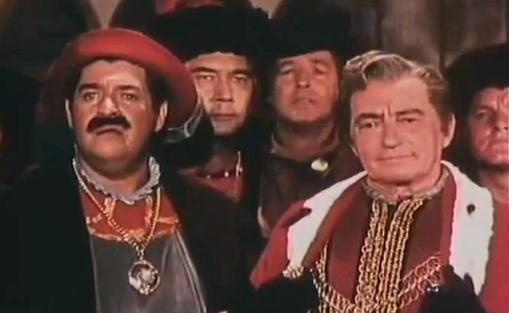 Stanley Adams (left) & Claude Rains in the TV-film The Pied Piper of Hamelin - cropped screenshot